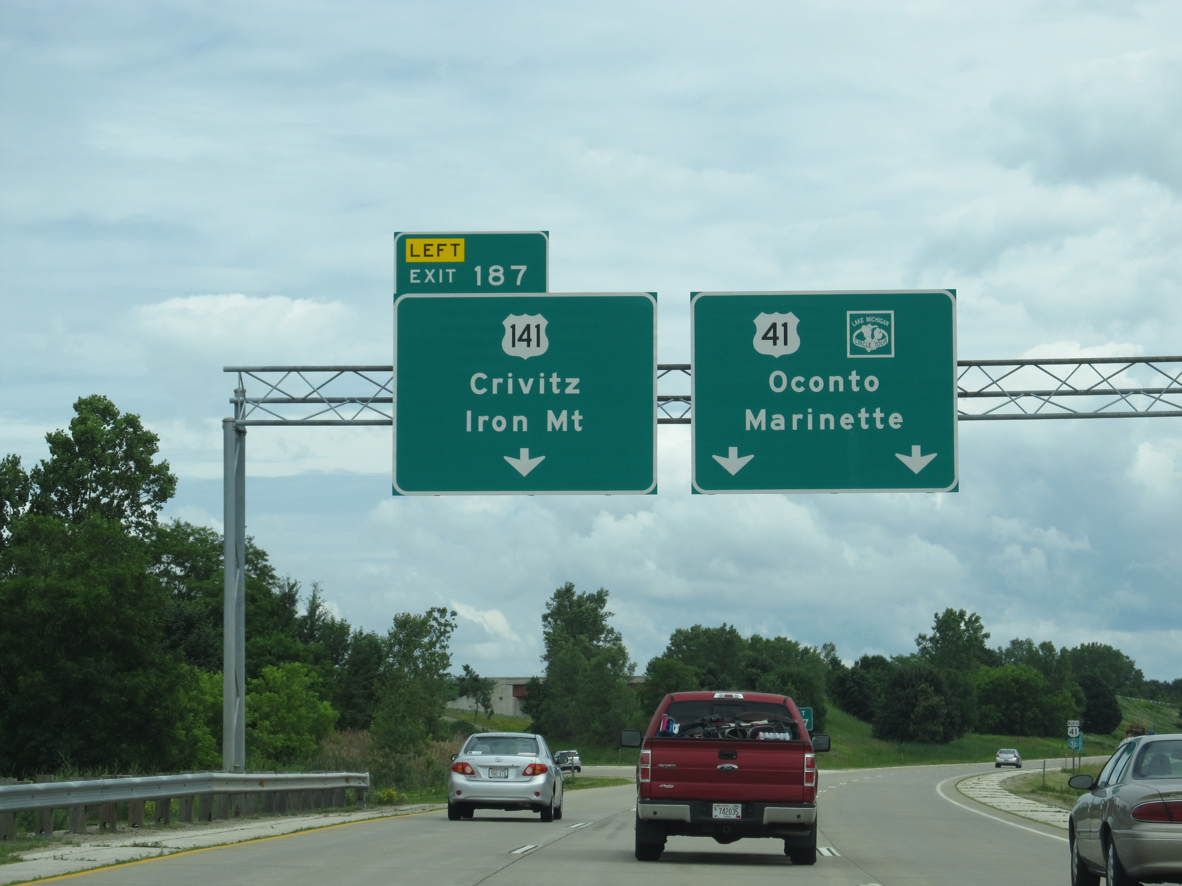 Junction of US Highway 141 and US 41 near Abrams, Wisconsin